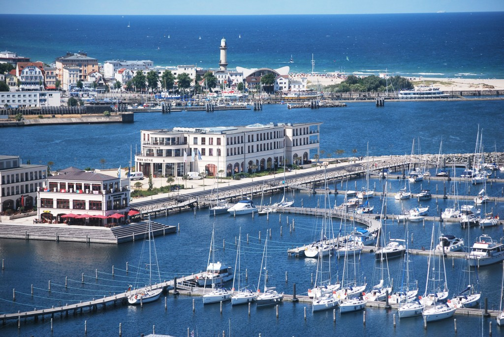 Aerial view of the Yacht Harbour Residence "Yachthafenresidenz Hohe Düne" at the Baltic Sea in Rostock (Mecklenburg), Germany